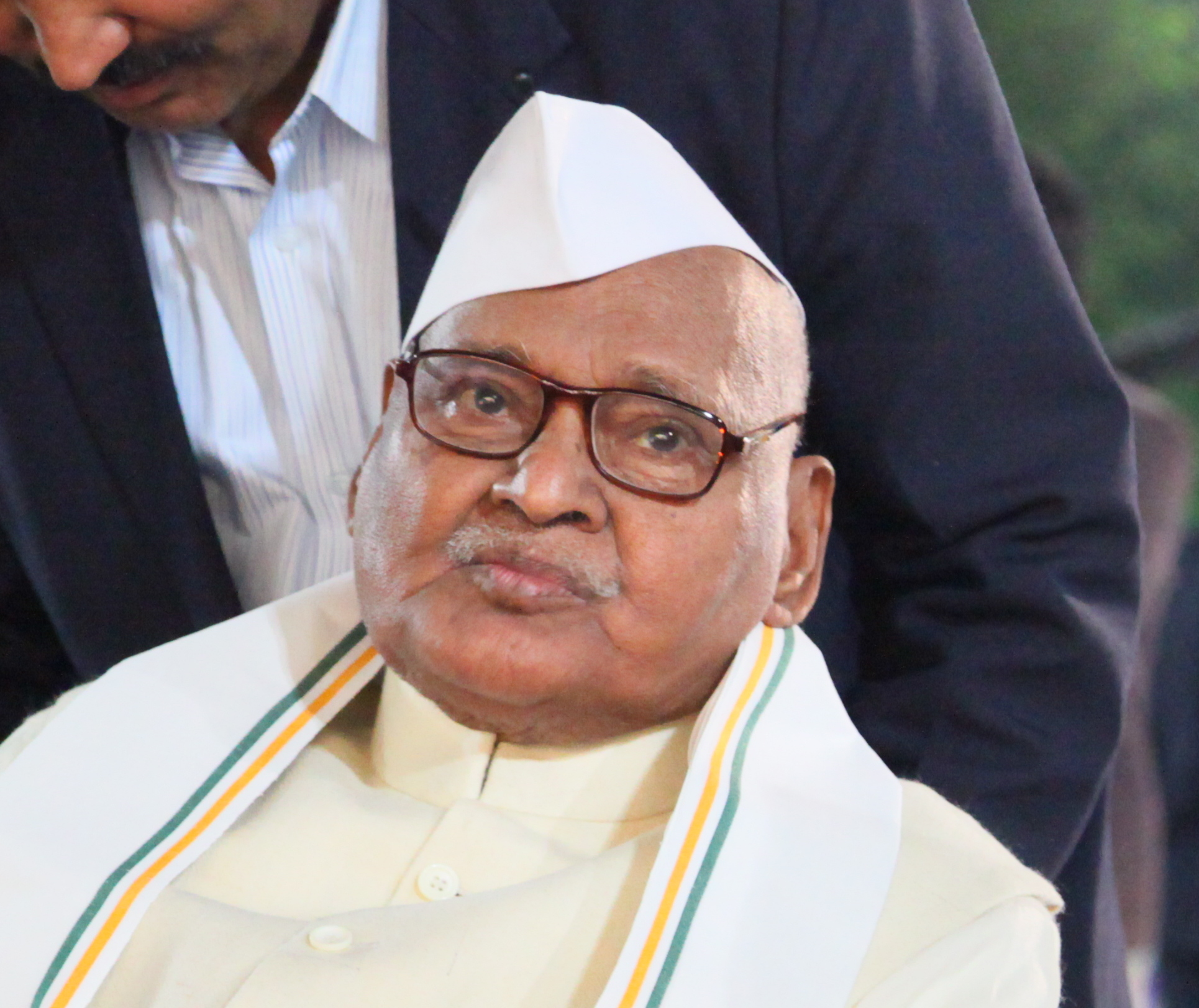 Bekal Utsahi with Ram Naresh Yadav